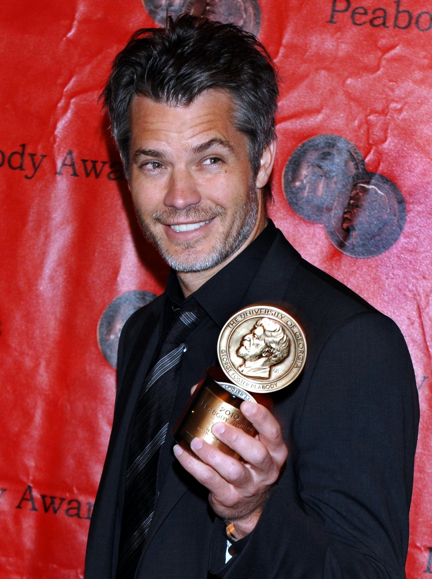 PHOTO CREDIT: ANDERS KRUSBERG / PEABODY AWARDS 70th Annual Peabody Awards Luncheon Waldorf=Astoria Hotel May 23, 2011